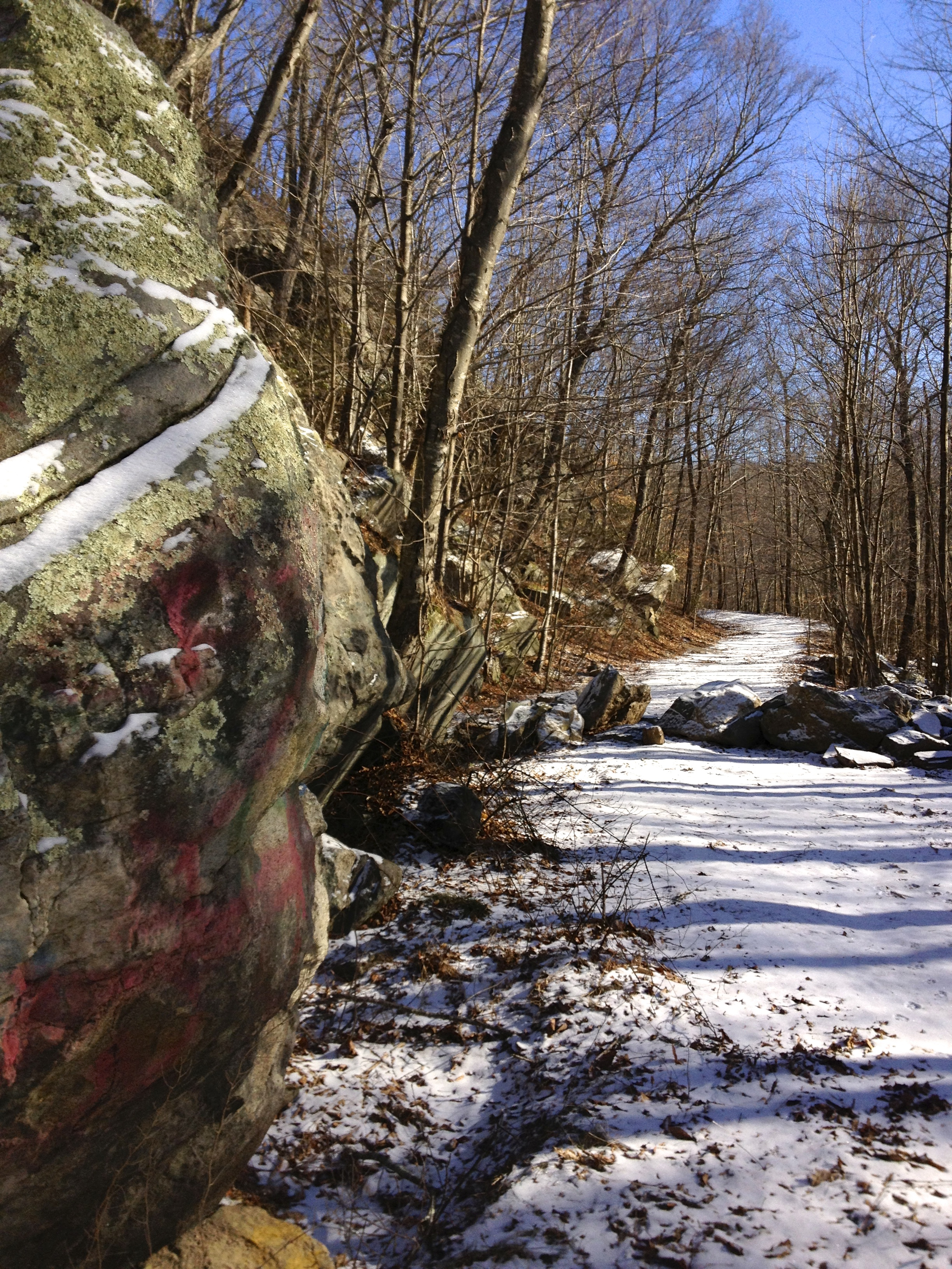 Barrier at non-motor vehicle section of Pine Ledge Road/Trail leading away from Pine Ledge towards CT Route 9 in Connecticut's Cockaponset State Forest Winthrop/Great Swamp/Pine Ledge Block.